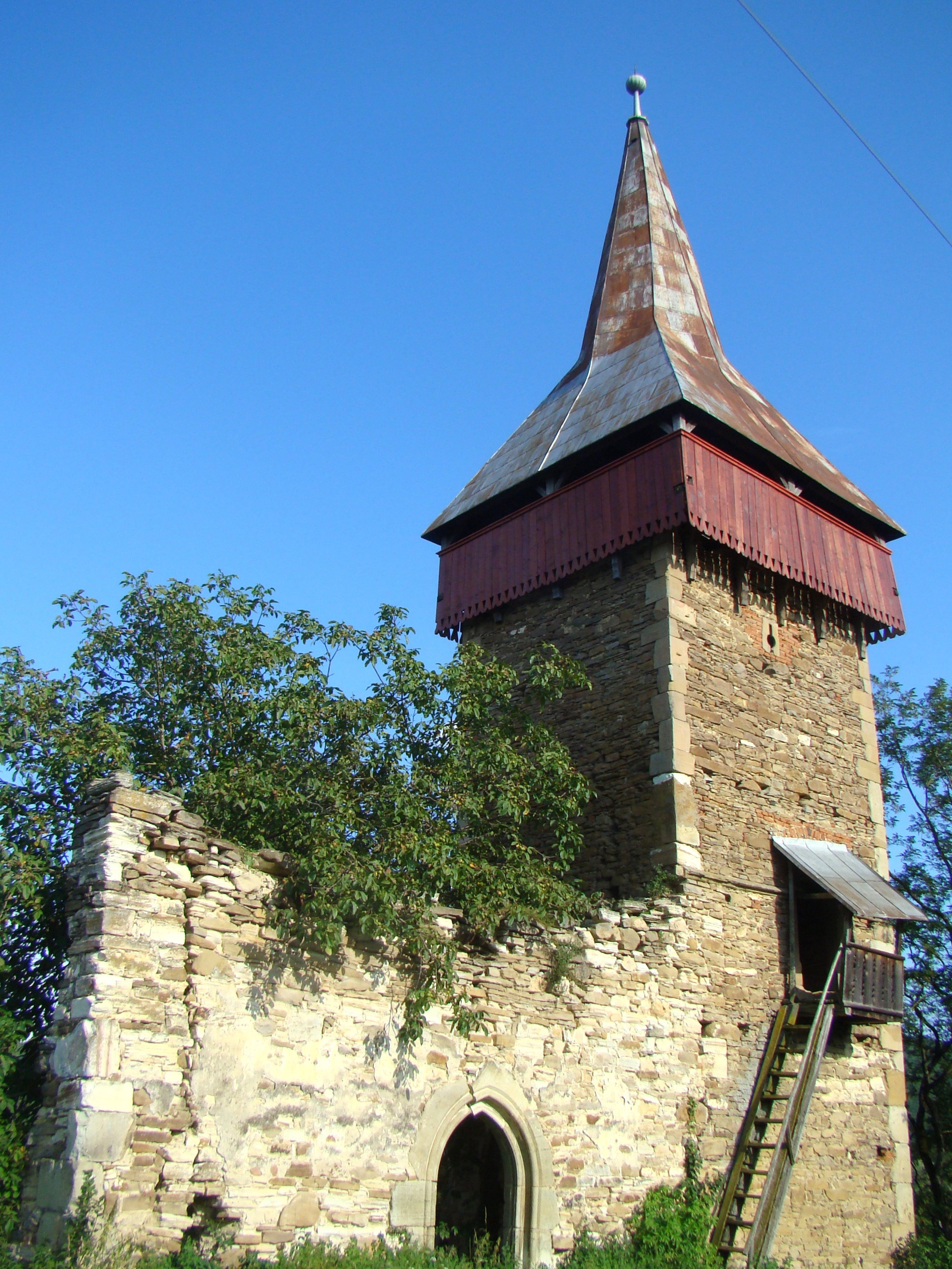 Lutheran church in Moruț, Bistrița-Năsăud county, Romania